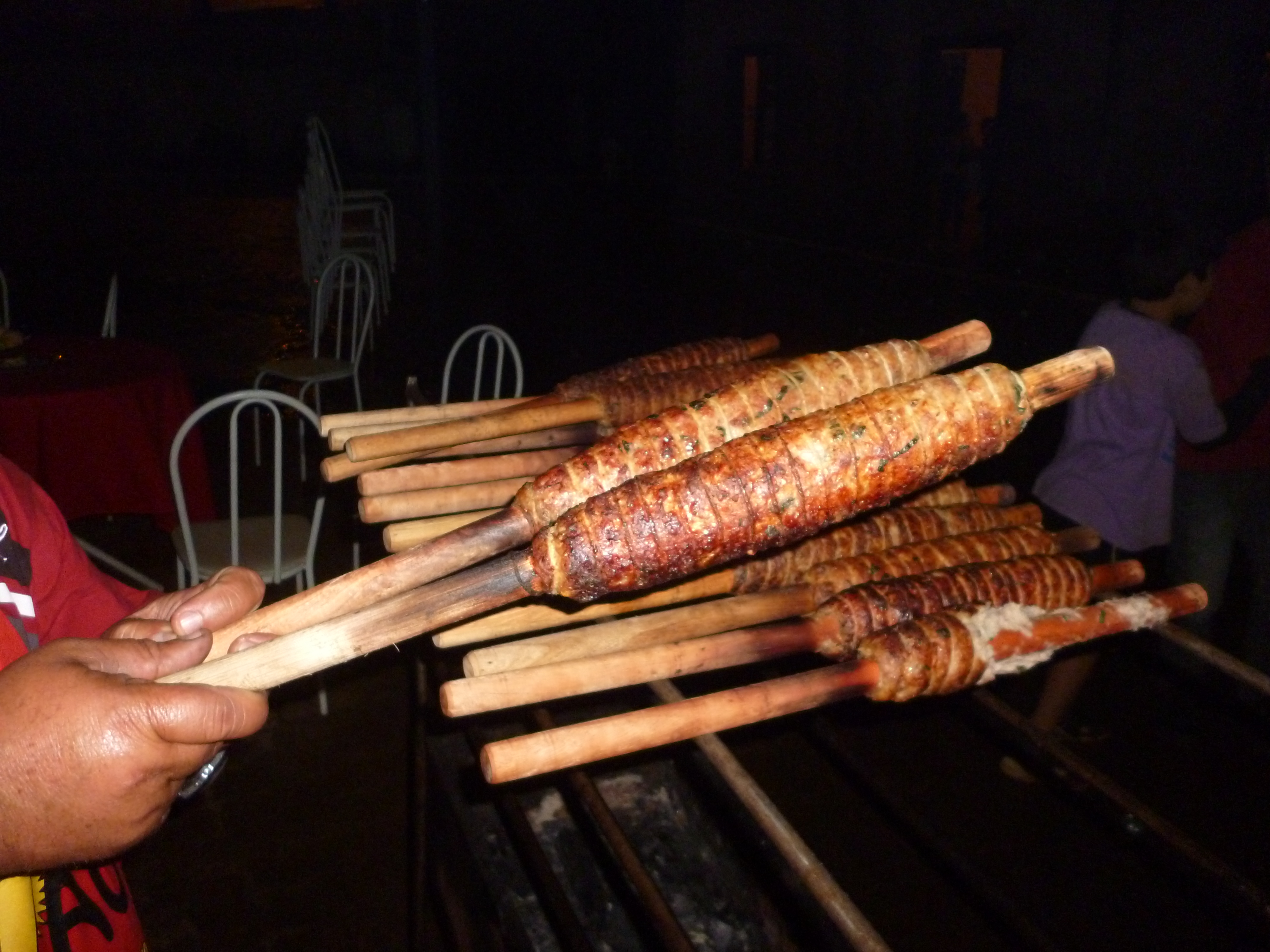 Espeto de Rojão is a regional cultural tipic food from Ribeirão Grande city, in São Paulo's State, Brazil